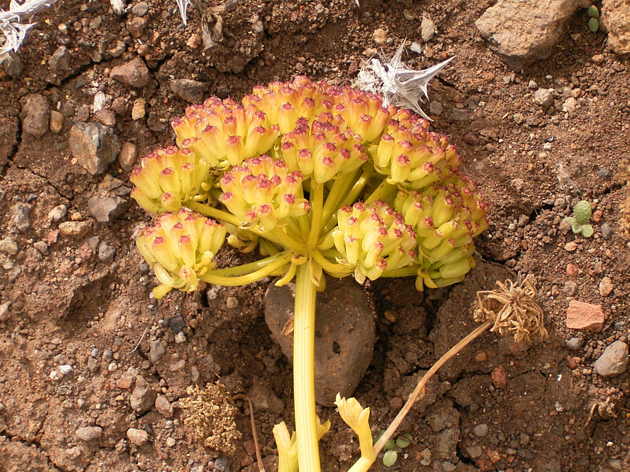 Astydamia latifolia growing in San Andrés y Sauces, La Palma, Canary Islands